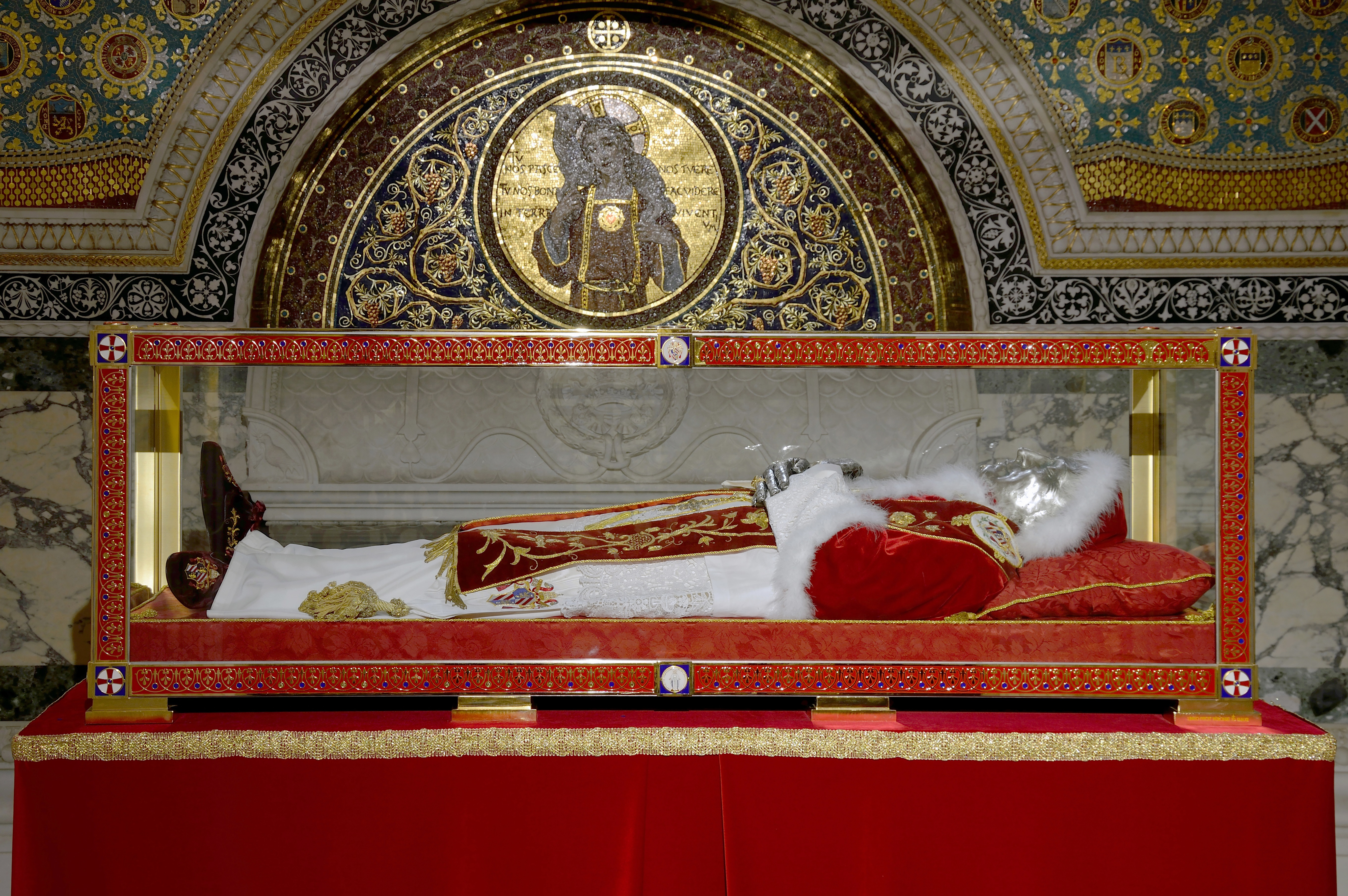 Tomb of Pius IX